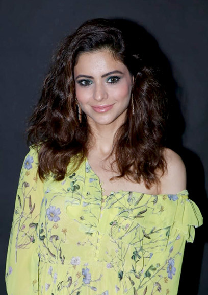 Aamna Sharif during a photoshoot with photographer Rohan Shreshta in October 2018.